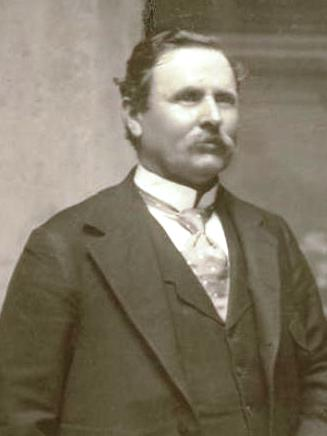 Photo of John R. Park, a prominent educator in the Territory and State of Utah in the late 19th century, and in many ways was the intellectual father of the University of Utah.